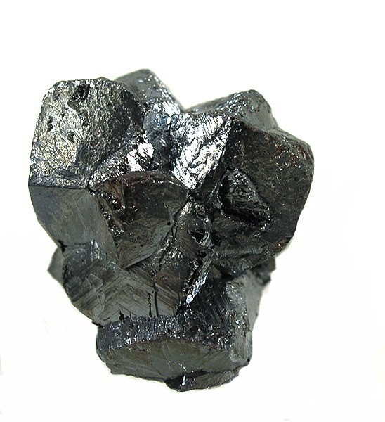 Pyrargyrite Locality: Municipio de Fresnillo, Zacatecas, Mexico (Locality at ) EXCEPTIONAL sharp, lustrous crystals , arranged in a 3-dimensional rosette. VERY NICE! 1.9 x 1.8 x 1.7 cm